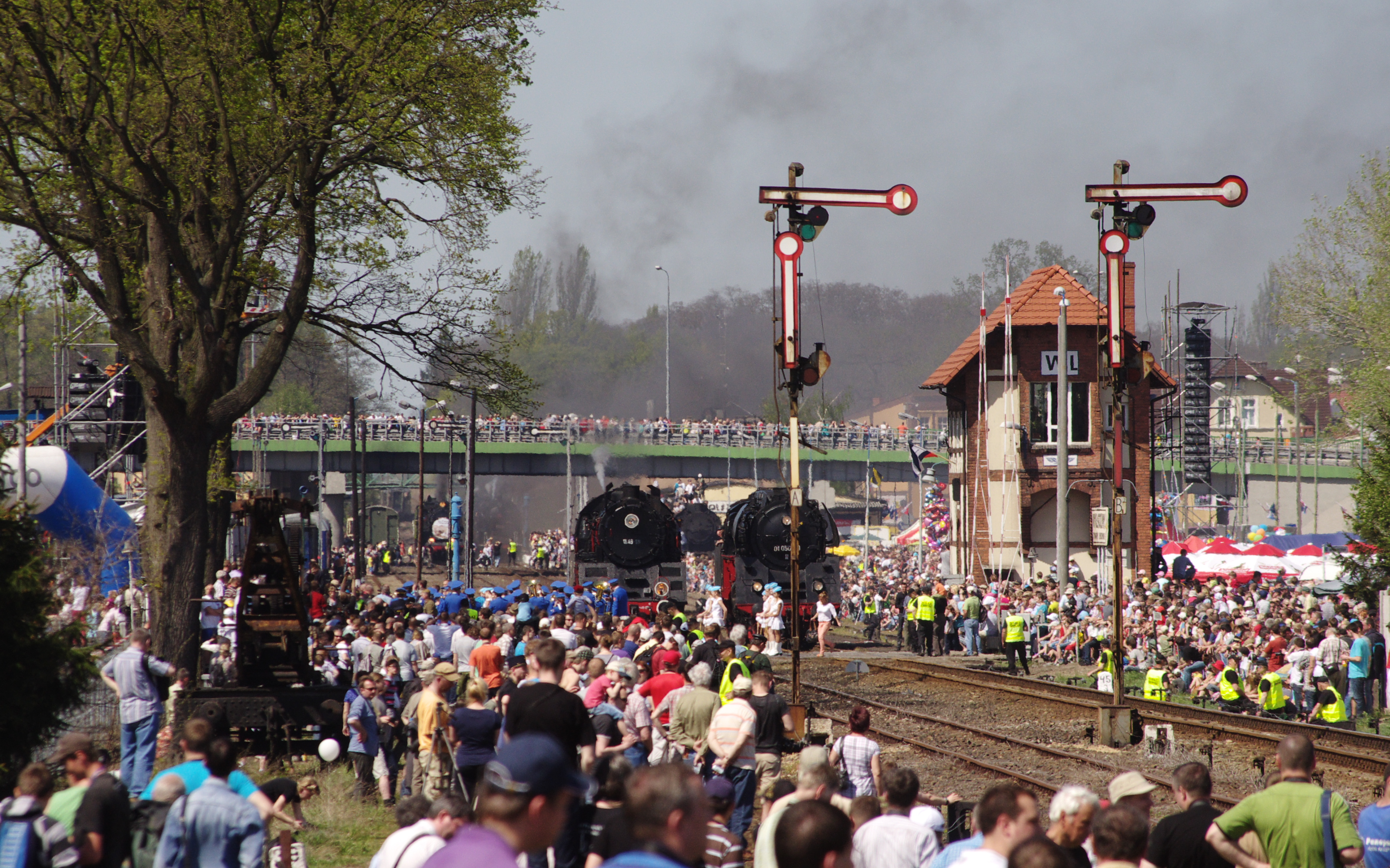 The beginning of the Steam Locomotives Parade 2012 - distant view